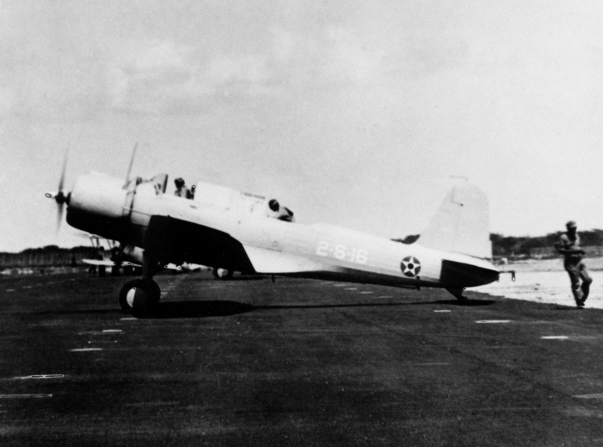 A U.S. Marine Corps Vought SB2U-3 Vindicator of Marine Scouting Squadron Two (VMS-2), in pre-war markings, at Marine Corps Air Station Ewa, Territory of Hawaii.